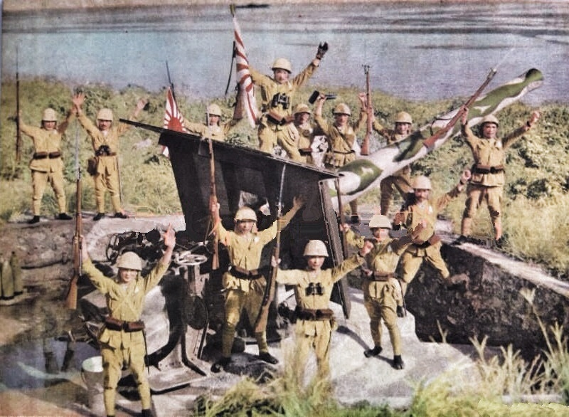 SNLF soldiers posing with a captured British coastal gun after the conquest of Christmas Island in the Indian Ocean, April 1942. Because of a mutiny by Indian soldiers against their British officers, Japanese troops were able to occupy Christmas Island without any resistance...